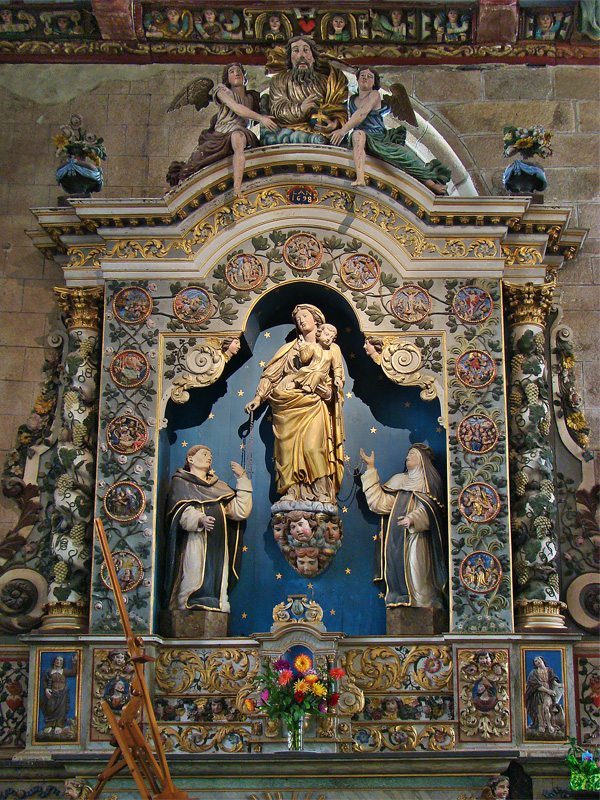 Saint-Germain Church, Pleyben, Finistère, Bretagne, France. Retable of the Rosary (1696), a work by the master sculptor Jean Cevaër and the master carpenter Jean le Senven, both from Pleyben.